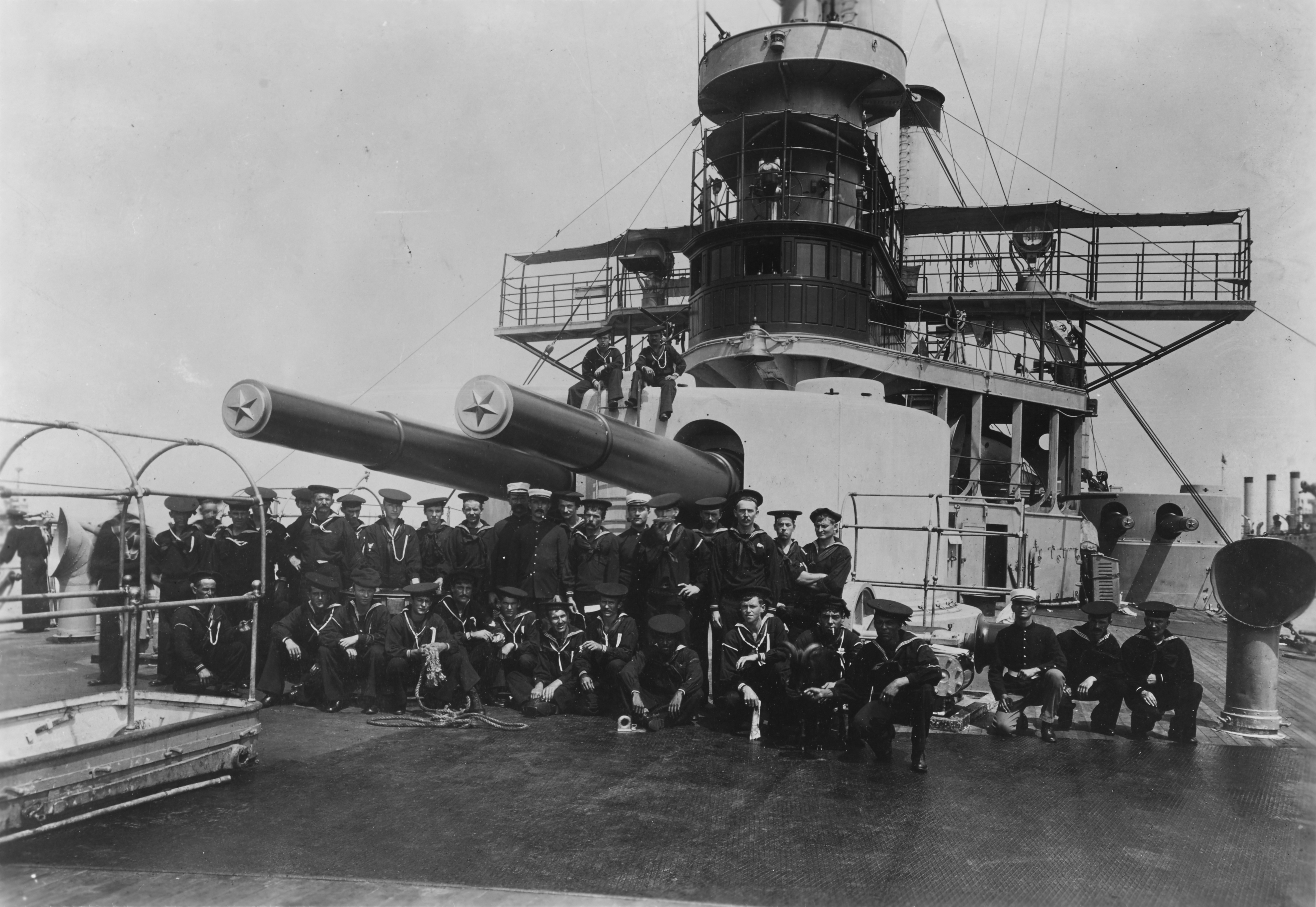 (Battleship # 4) Sailors and Marines of the ship's crew posed in front of her forward 12/35 gun turret, circa August 1898. Photographed by William H. Rau. Note that Iowa has been partially repainted from wartime grey. Also note the ship's bell below the pilothouse. USS Brooklyn (Armored Cruiser # 3) is in the right distance.